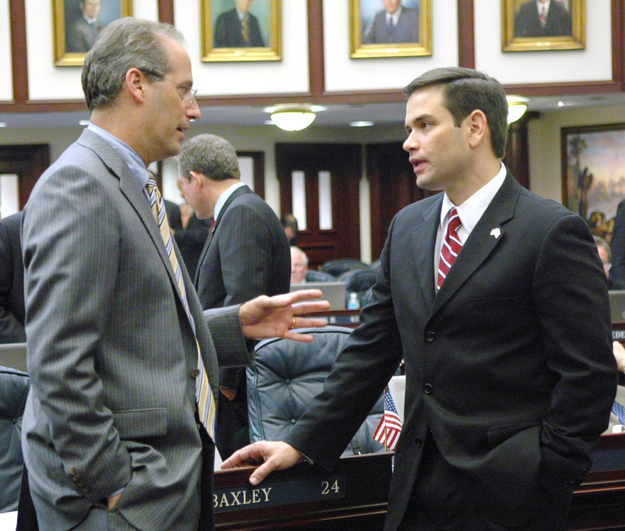 Democratic leader Dan Gelber, D-Miami Beach, left, confers with Speaker Marco Rubio, R-Miami, right, on the House floor during the 2007 Legislature in Tallahassee, Florida.